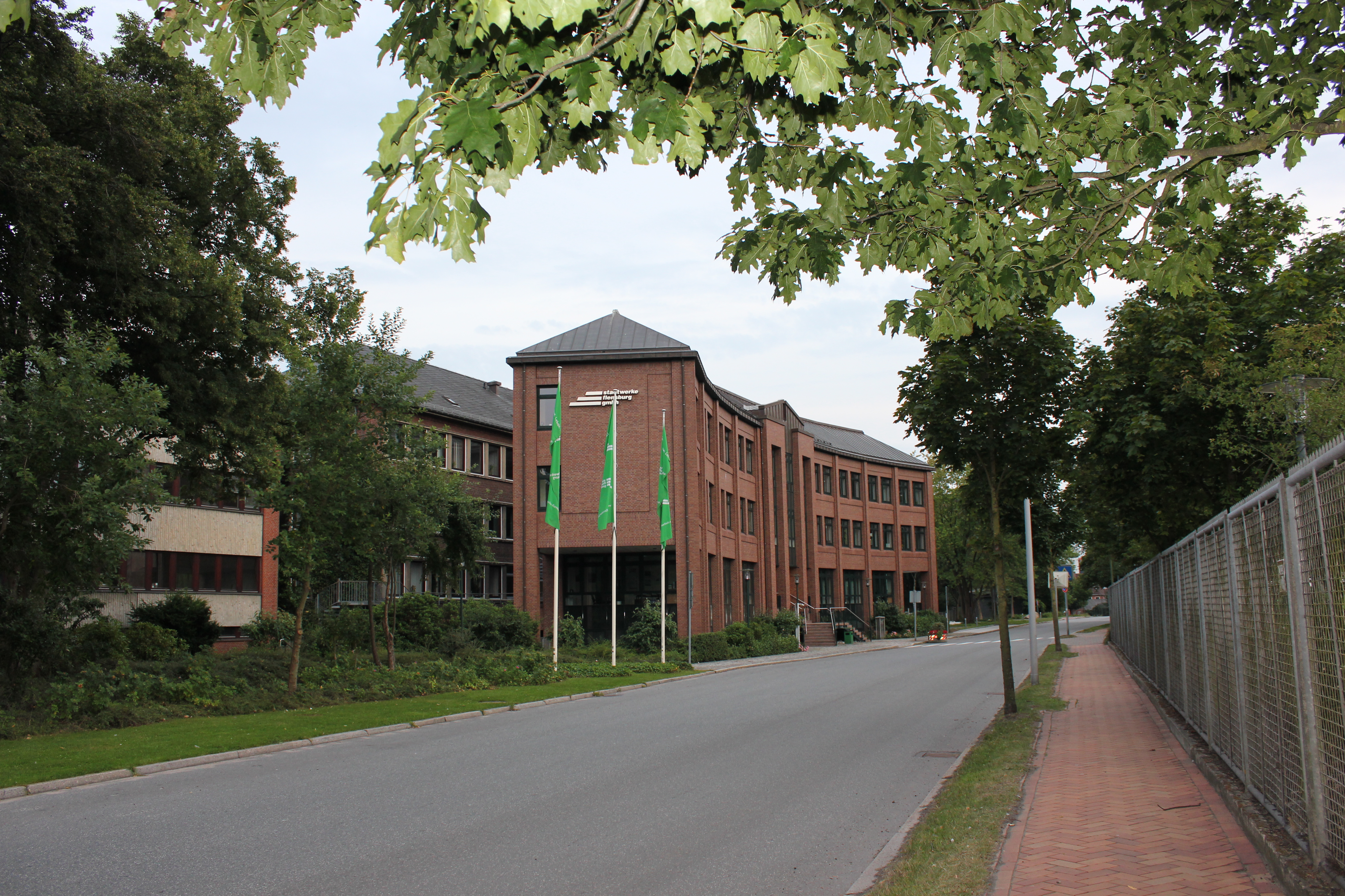 Stadtwerke Flensburg Batteriestr. (Entrance)